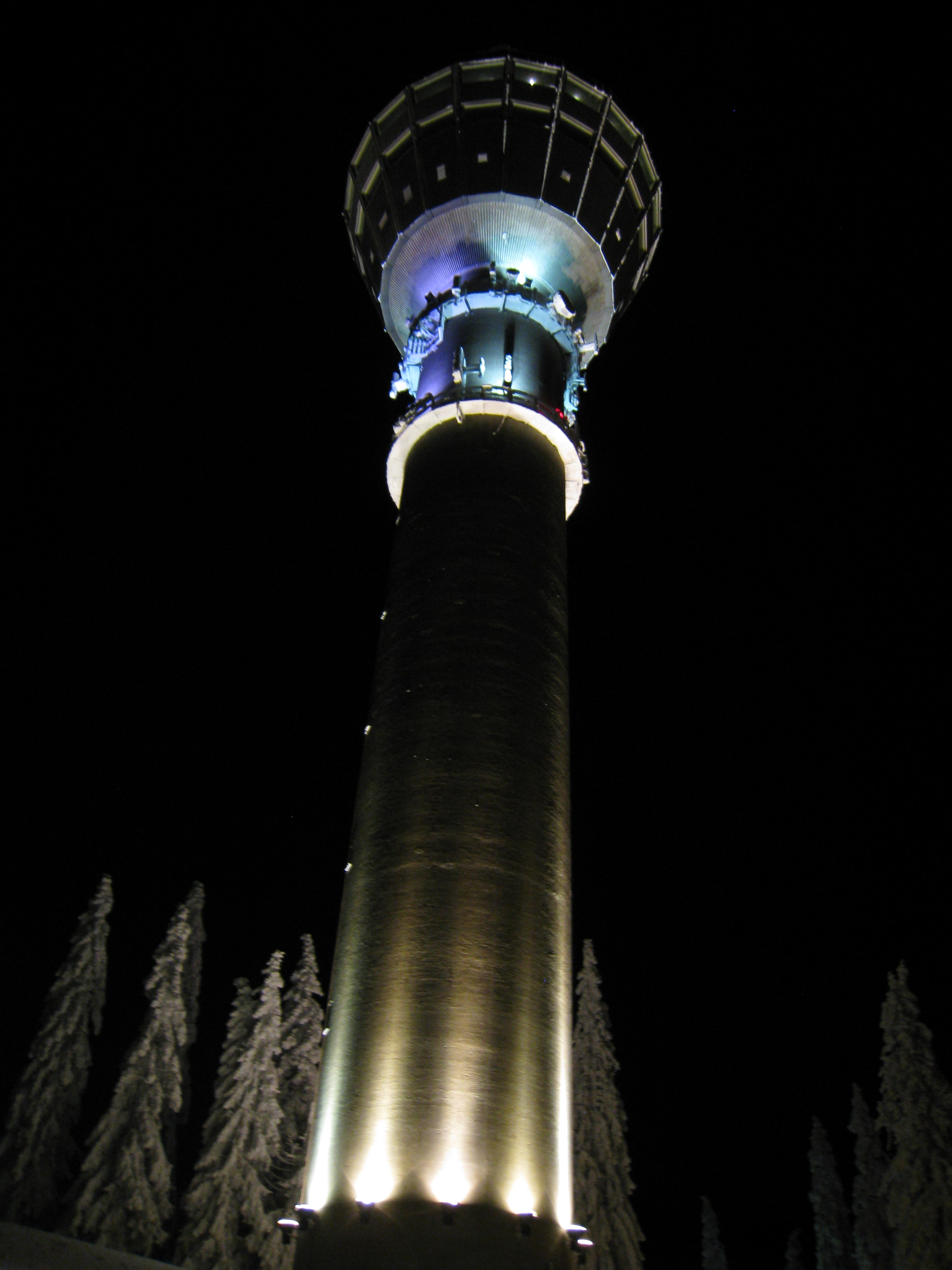 Puijo Tower in Kuopio, Finland.